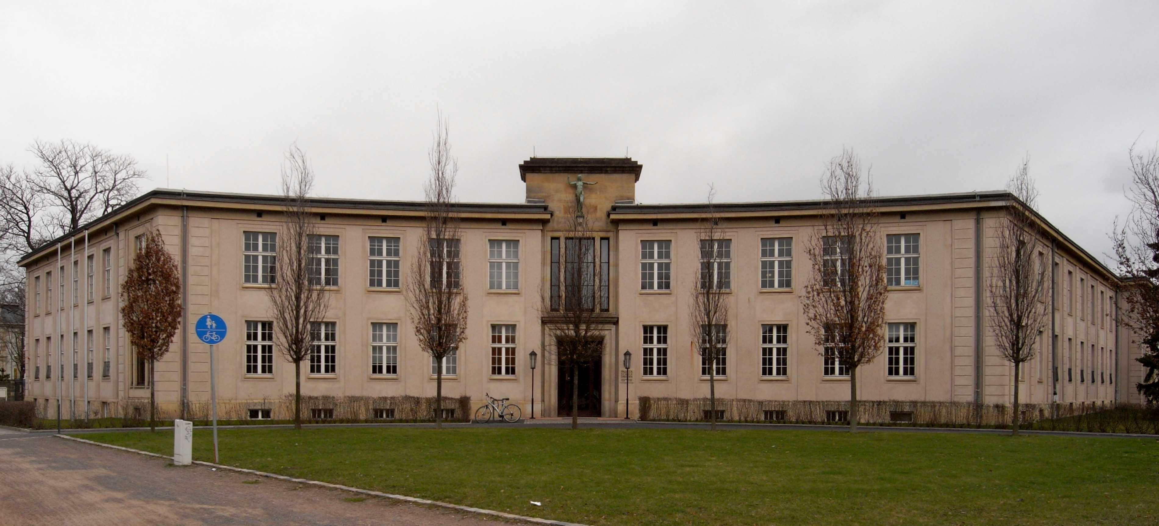 Palucca Campus, Palucca Schule Dresden (Academy for Artistic Dance), modern architecture (built 1953–55)